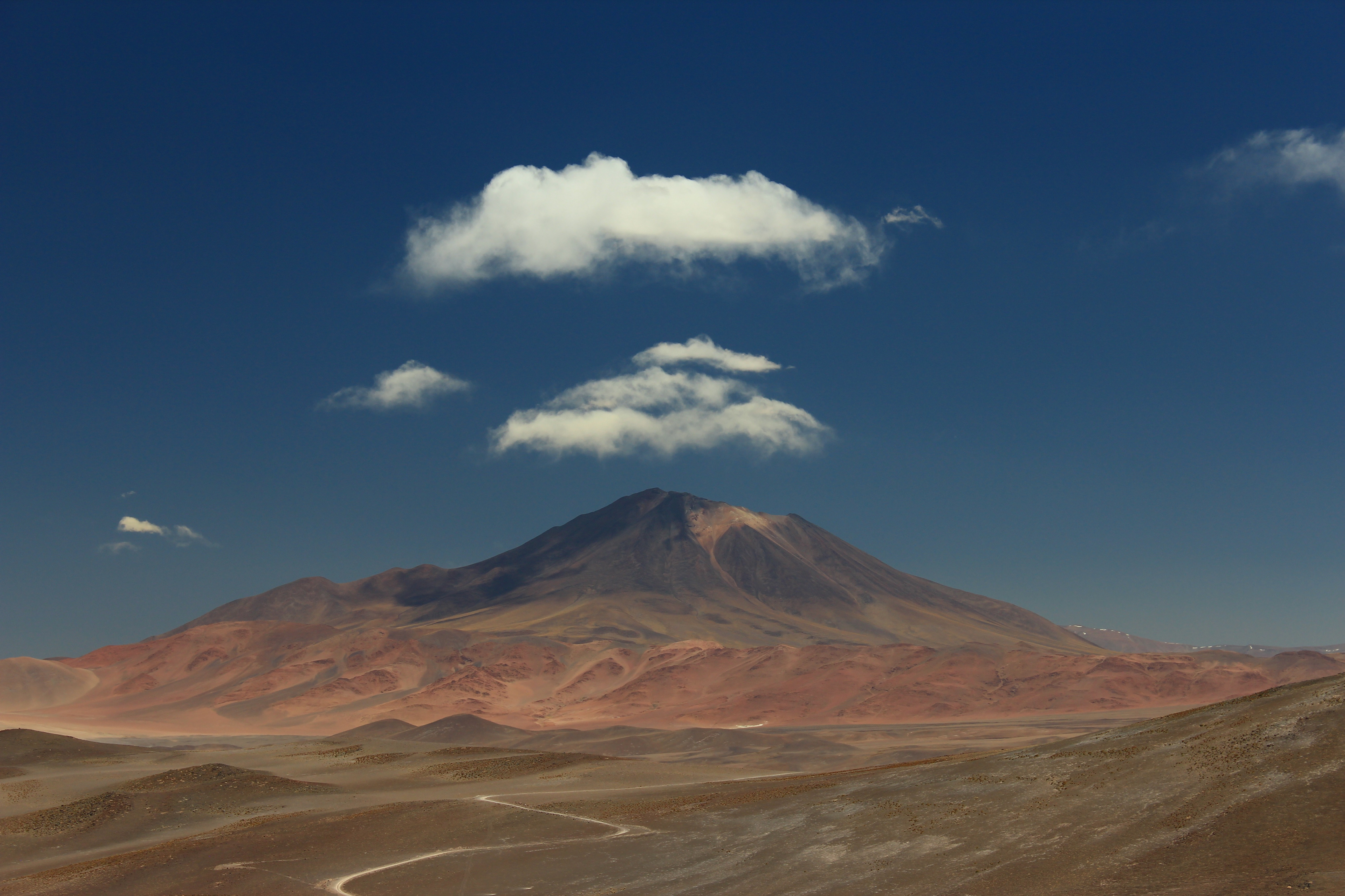 Salar de Incahuasi, Argentina